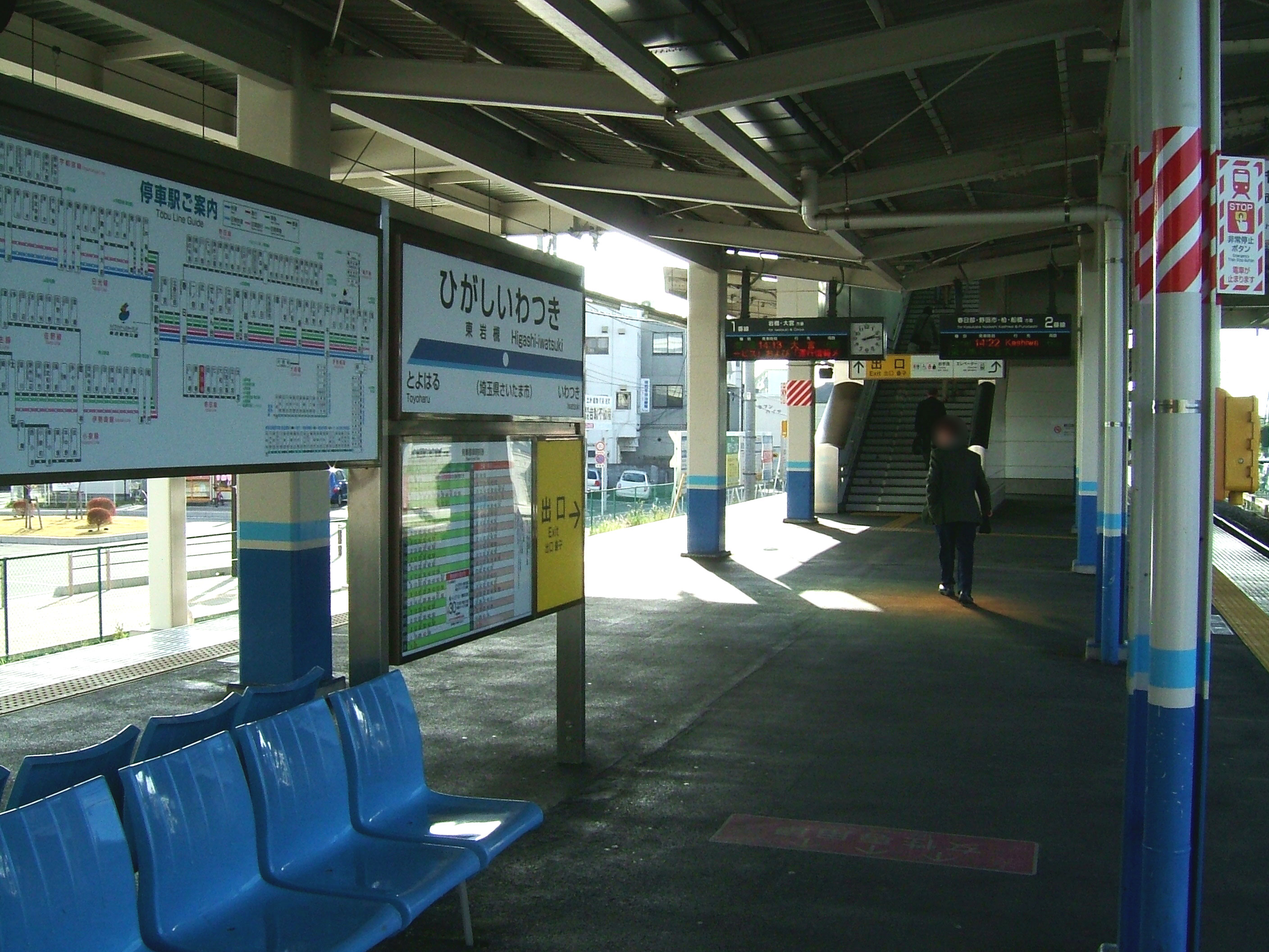 The platform at Higashi-Iwatsuki Station on the Tōbu Noda Line in Iwatsuki-ku, Saitama city, Japan